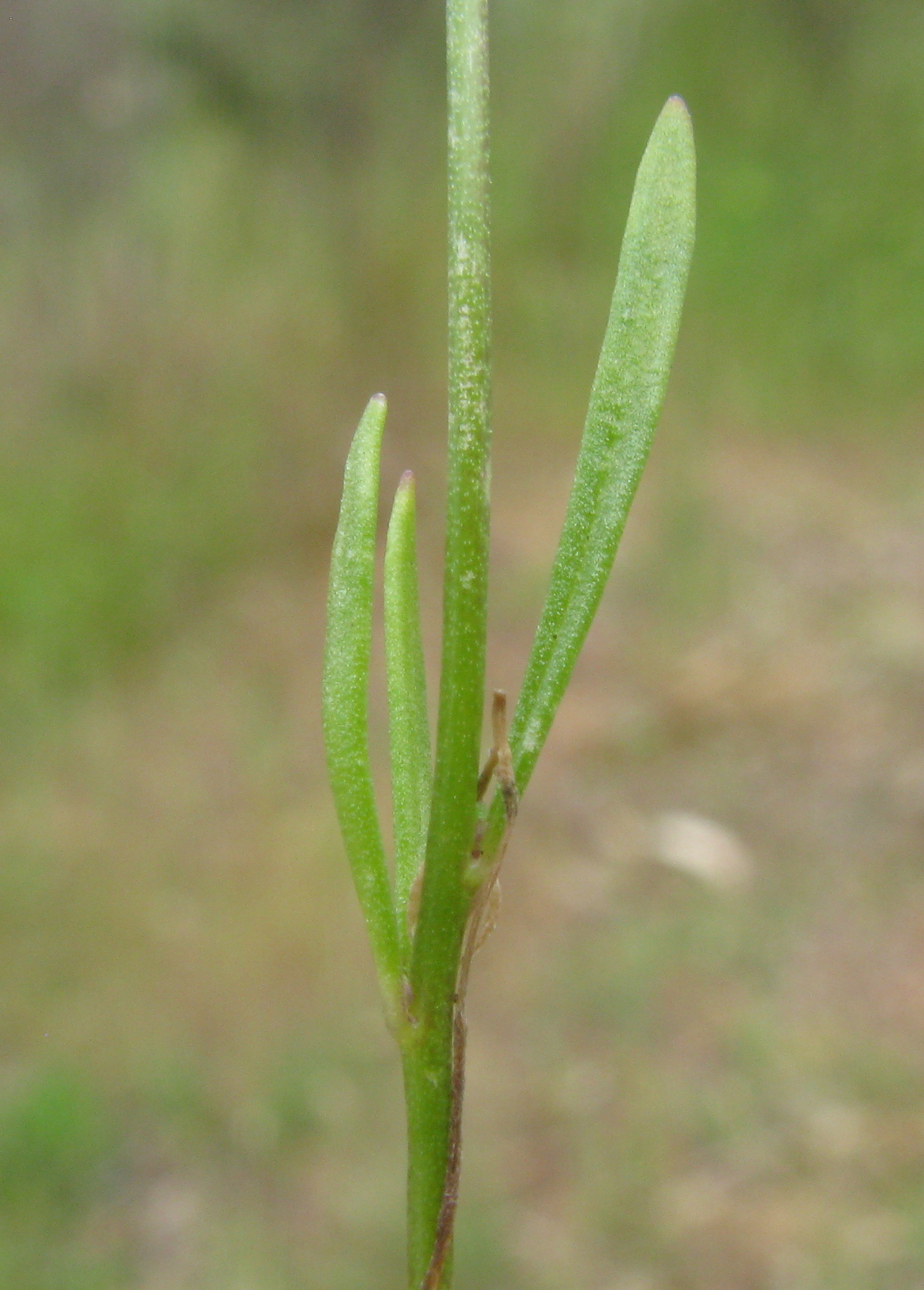 Introduced, cool season, annual, erect, hairless, slender herb 20–70 cm tall. Short non-flowering shoots have leaves in whorls of 3; lamina elliptic to ovate, 0.6–1 cm long and 1.5–2.5 mm wide. Flowering shoots have erect, alternate leaves; lamina linear, 1–4 cm long and 0.5–1 mm wide. Flowerheads are few- to many-flowered racemes, at first short and dense, elongating in fruit, up to 25 cm long. Corolla is 6–9 mm long, purple-violet with whitish pubescent palate closing mouth; the spur is 7–9 mm long; upper lip pointed outwards with 2 narrow elongate lobes, lower lip shorter with recurved lobes. Fruit are 2-lobed capsules. Flowering is in spring. A native of southern Europe, it chiefly grows in disturbed sites along roadsides, railway lines, in pastures and in woodlands.